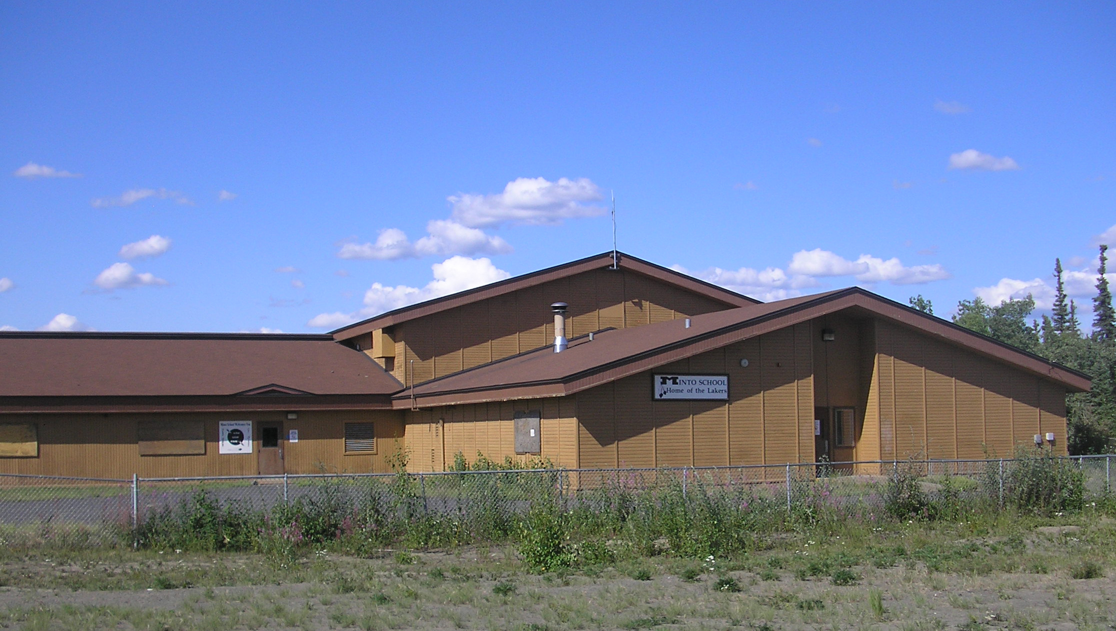 Minto School in Minto, Alaska, is seen in July 2009.